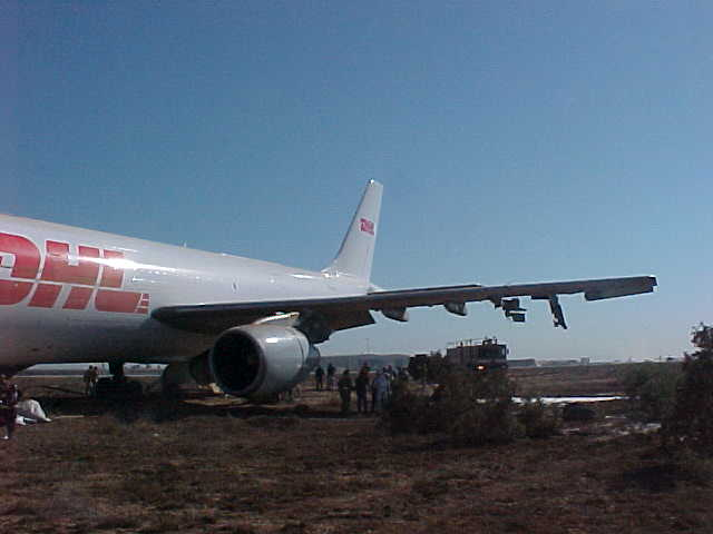 Front view 2 - Left wing of craft